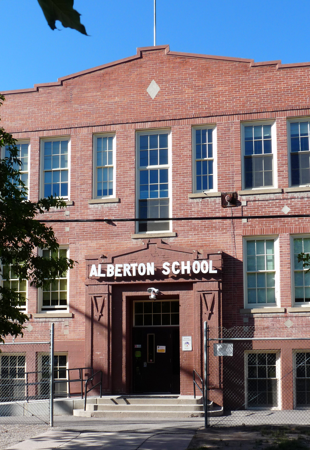 South elevation of Alberton School (Dist. No. 2), completed 1919, Railroad Avenue, Alberton, Montana, United States.